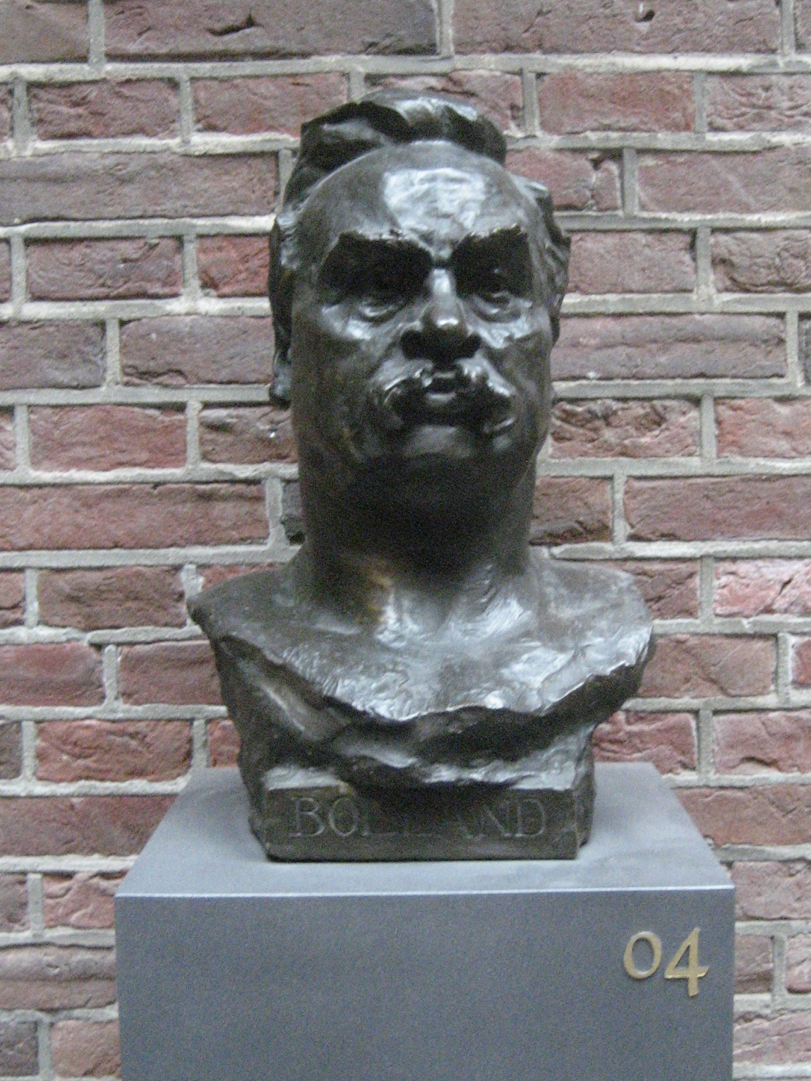 G.J.P.J. Bolland (1854-1922), professor of philosophy at Leiden University. Bust by Albert Termote (1918. Location: Academy Building, Rapenburg, Leiden University (The Netherlands)